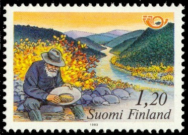 Postage stamp depicting Finnish gold washing